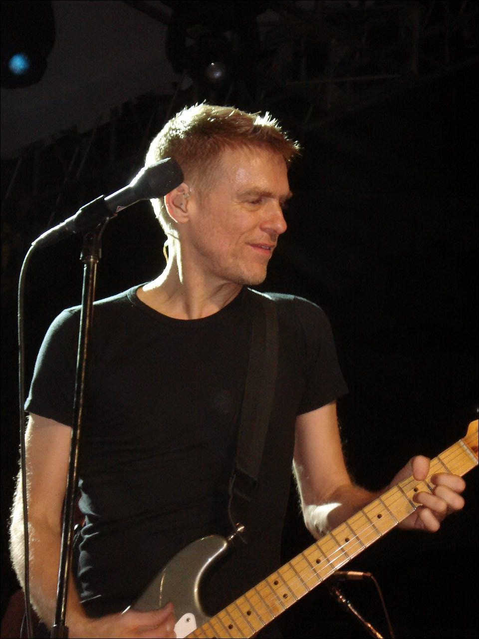 Bryan Adams live in Guadalajara, Mexico, on October 28, 2006